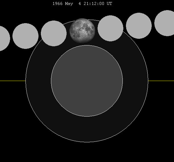 May 1966 lunar eclipse chart of moon's path through the earth's shadow. thumb